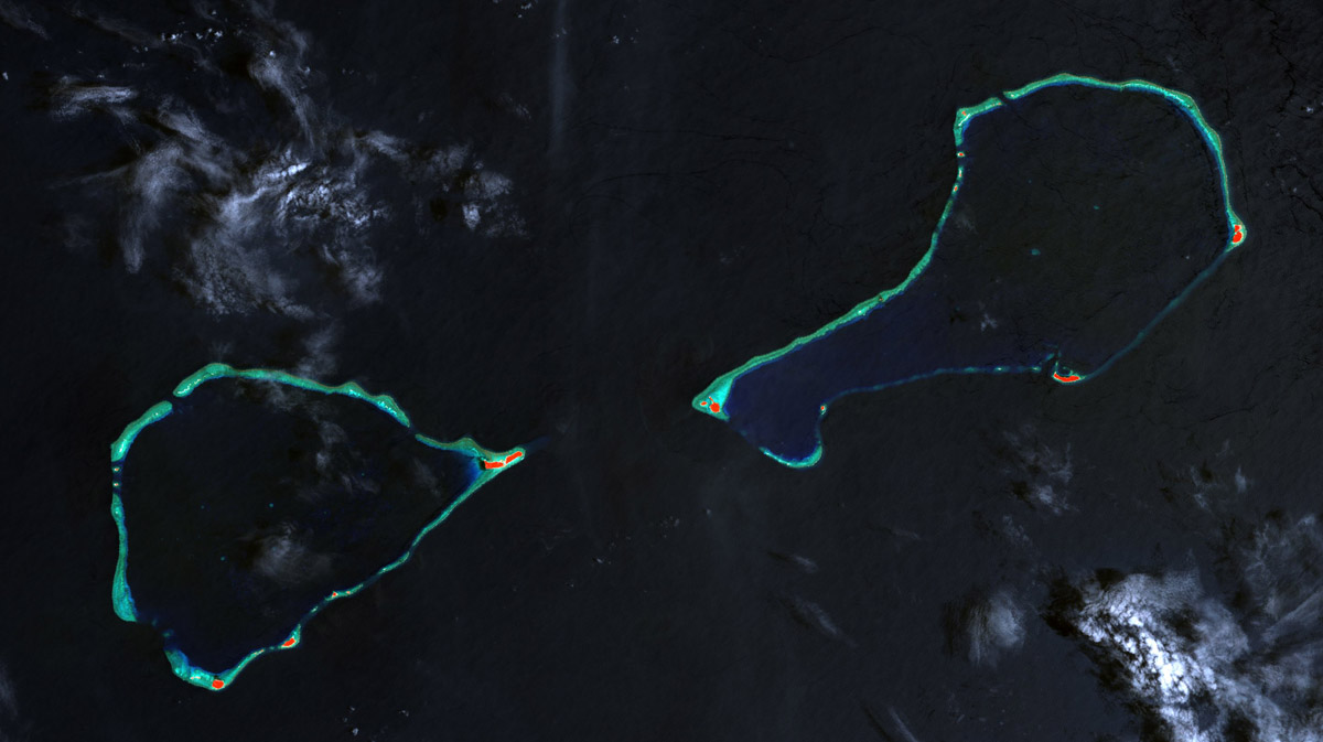 Landsat 7 image of Hall Islands which consist of the two atolls Nowin (left) and Murilo (right), Chuuk State, Federated States of Micronesia